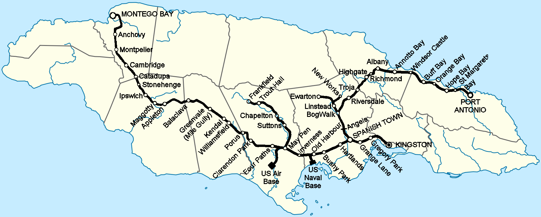 A map showing the c1945 maximum extent of the railways of Jamaica prior to the opening of the bauxite company lines. In this version the borders have been trimmed.